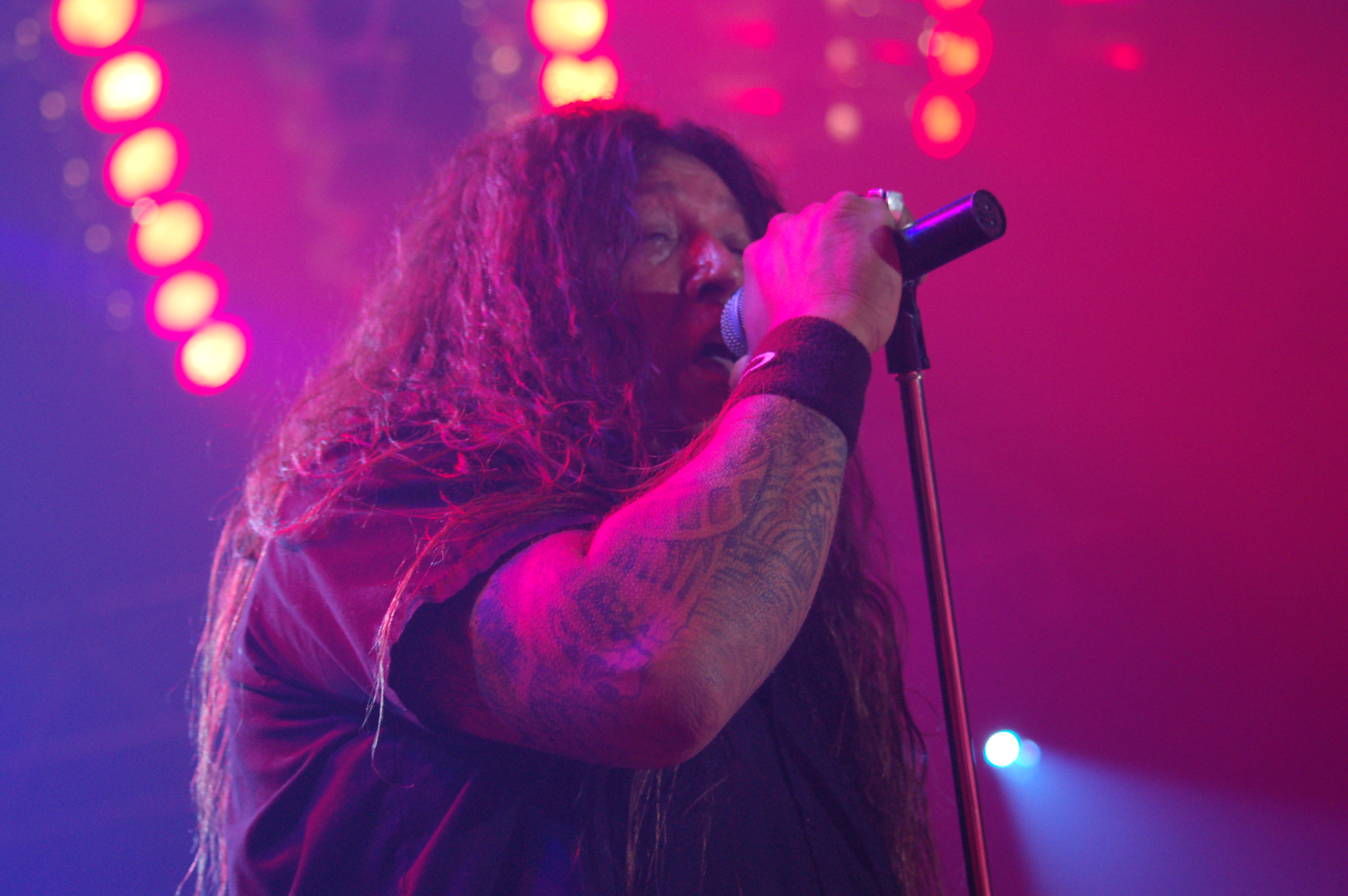 Chuck Billy from Testament during Metalmania 2007 festival